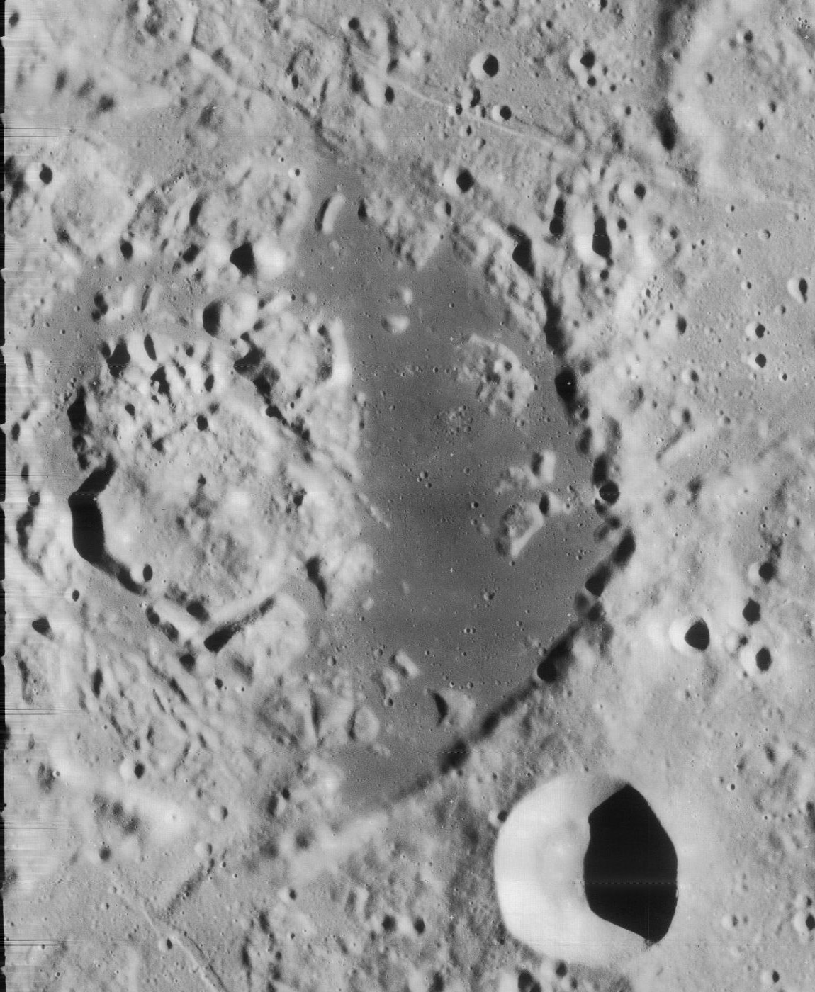 Most of Gerard Q Inner crater, northwest of Gerard, on the moon. Gerard A is the smaller crater in lower right.